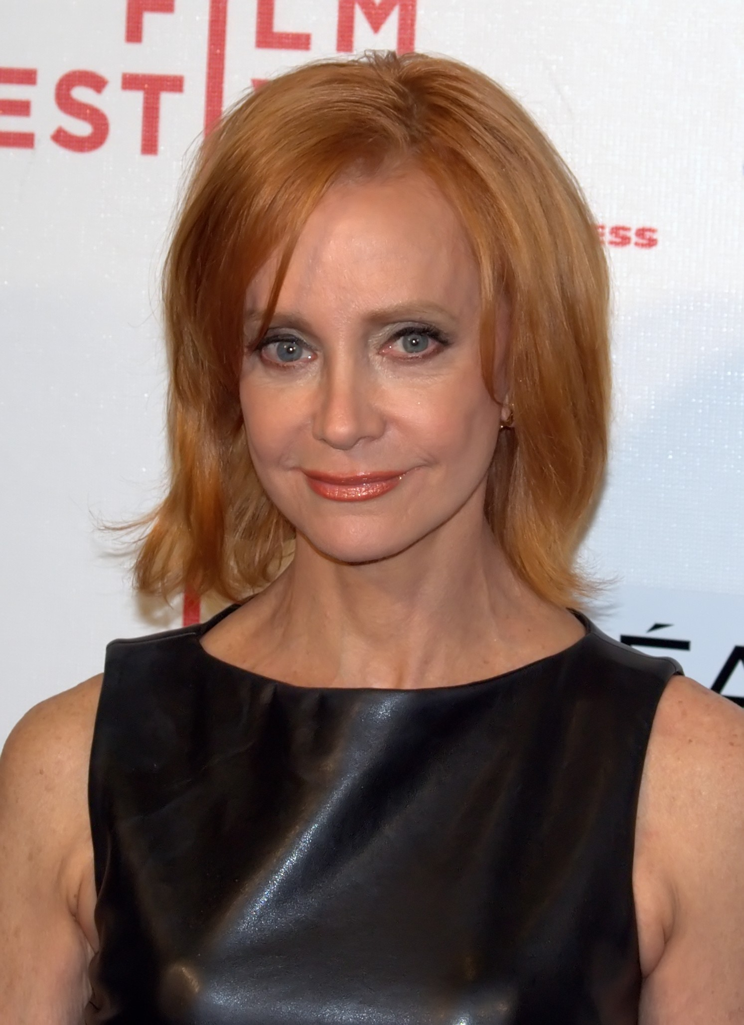 Swoosie Kurtz at the 2009 Tribeca Film Festival for the premiere of An Englishman in New York. Photographer's blog post about the event at which this photo was taken.